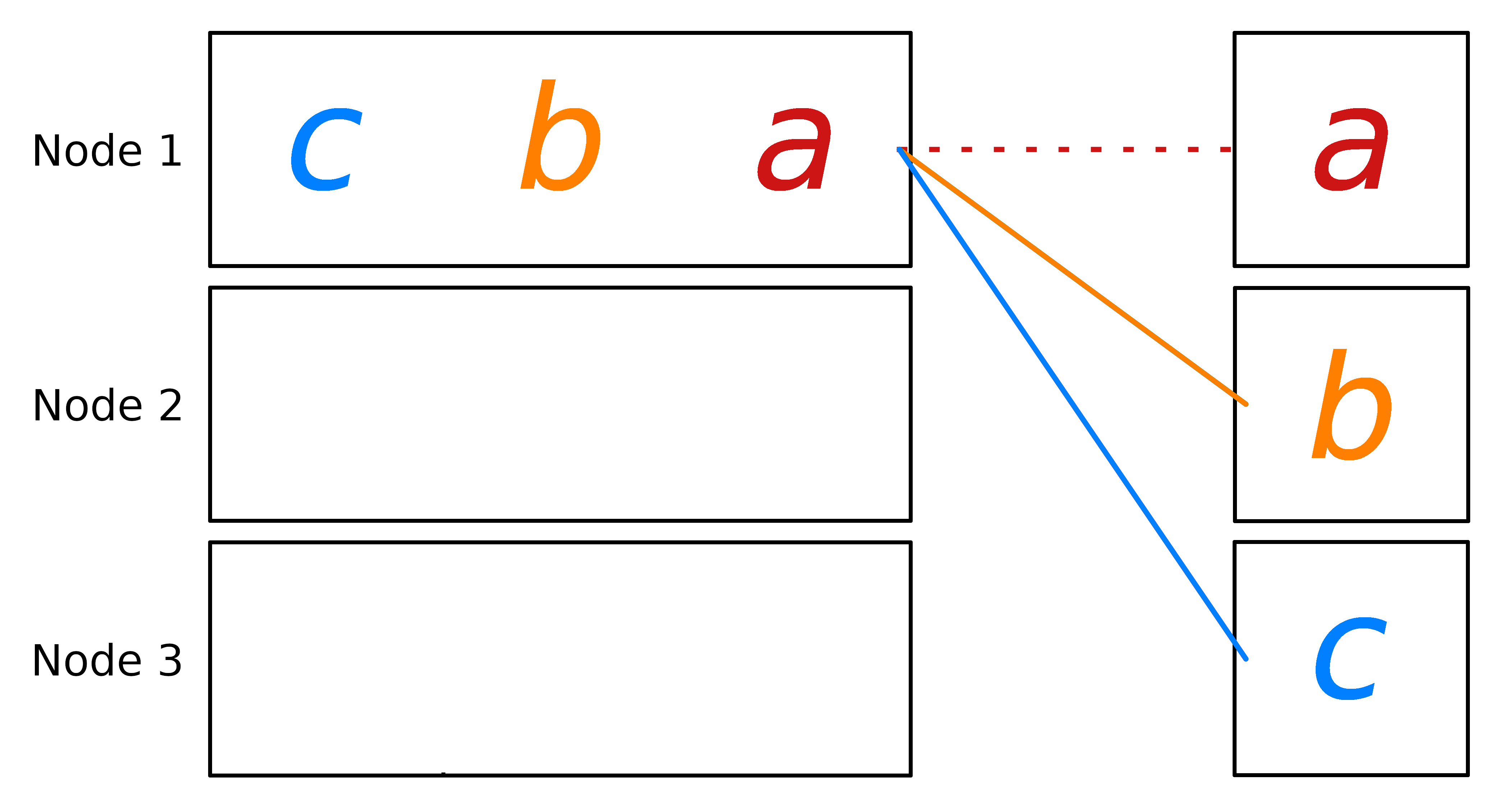 Node 1 stores three three information items. Each information item is separately distributed to one node.